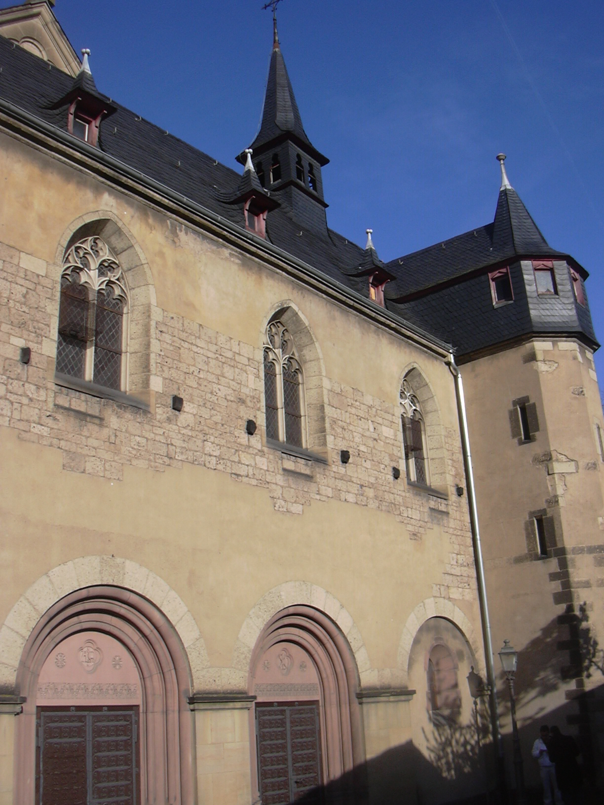 St. Peter and Paul, Remagen: Nave of original Romanesque-Gothic building